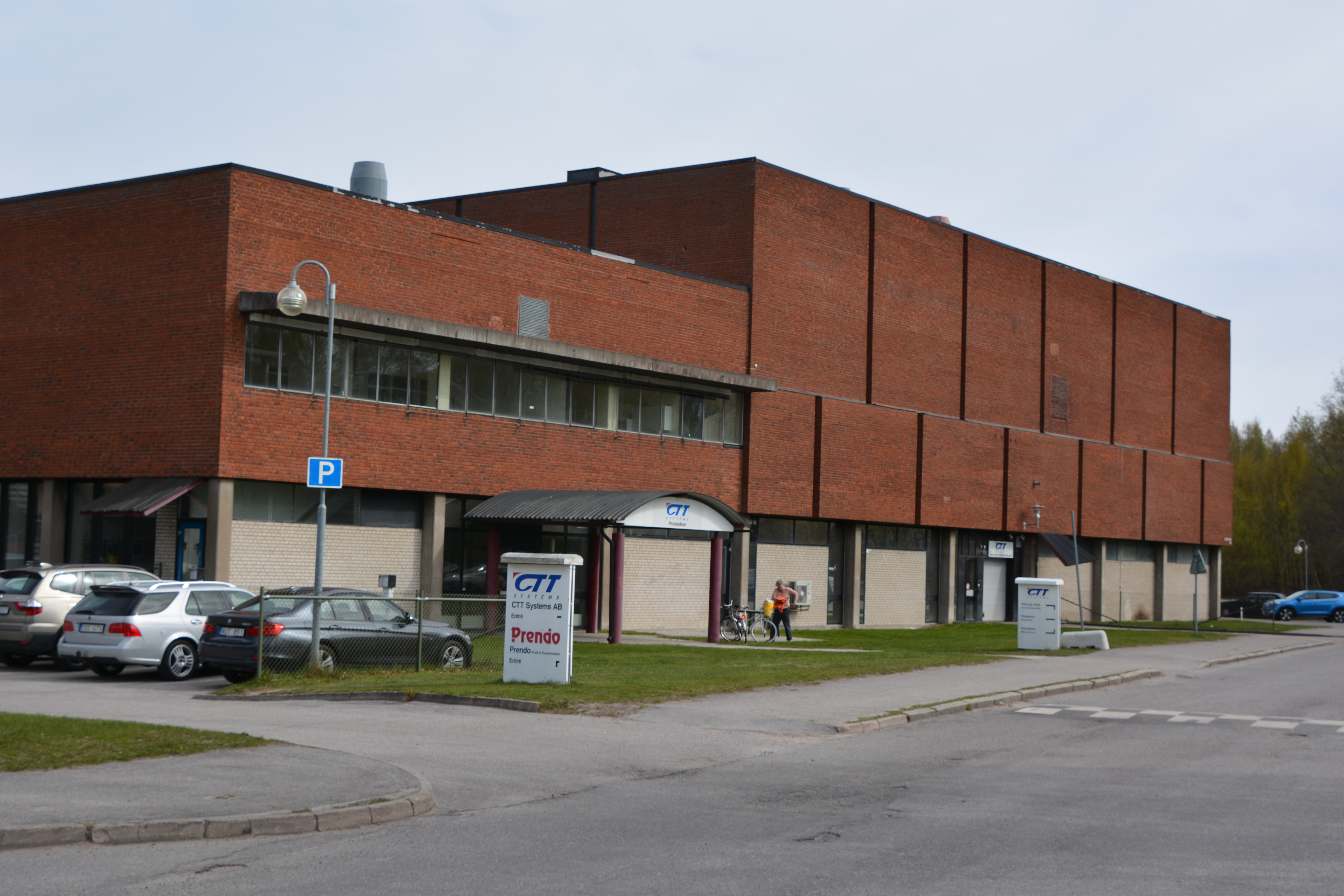 CTT Systems, Nyköping, Sweden